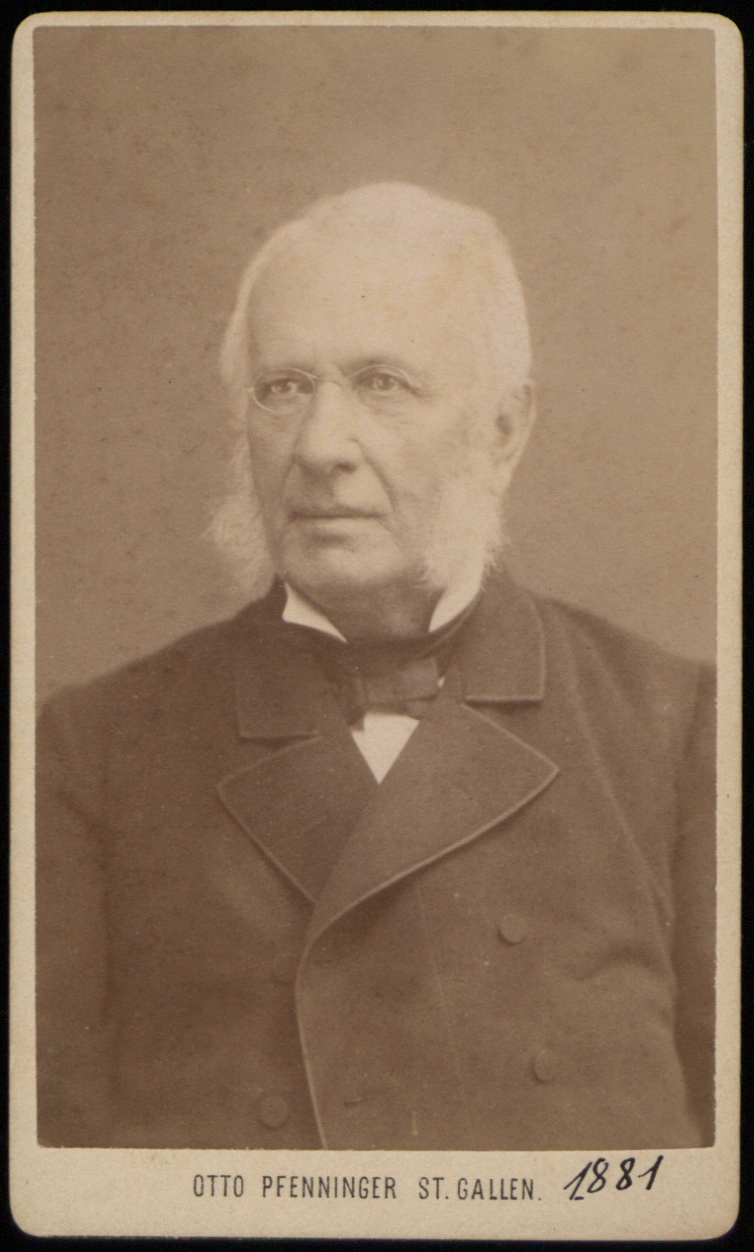 Portrait of Friedrich Miescher (1811-1887), photo